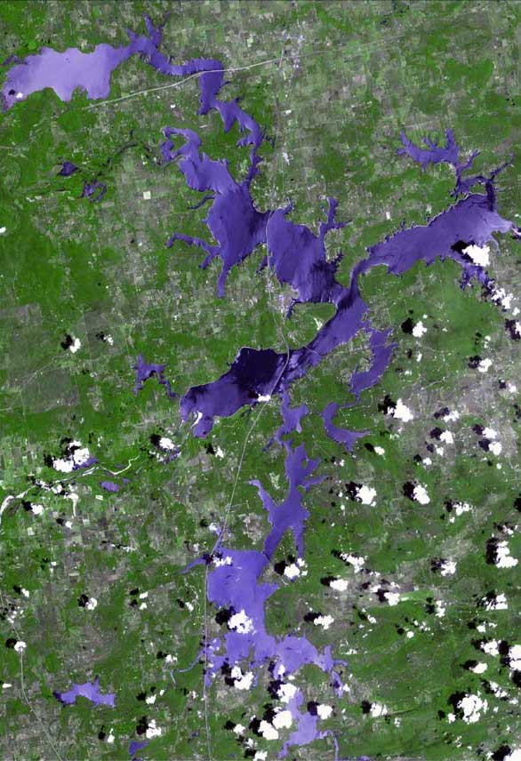 Lake Eufaula, Oklahoma, from Space. The raw satellite imagery shown in these images was obtain from NASA and/or the US Geological Survey. Post-processing and production by